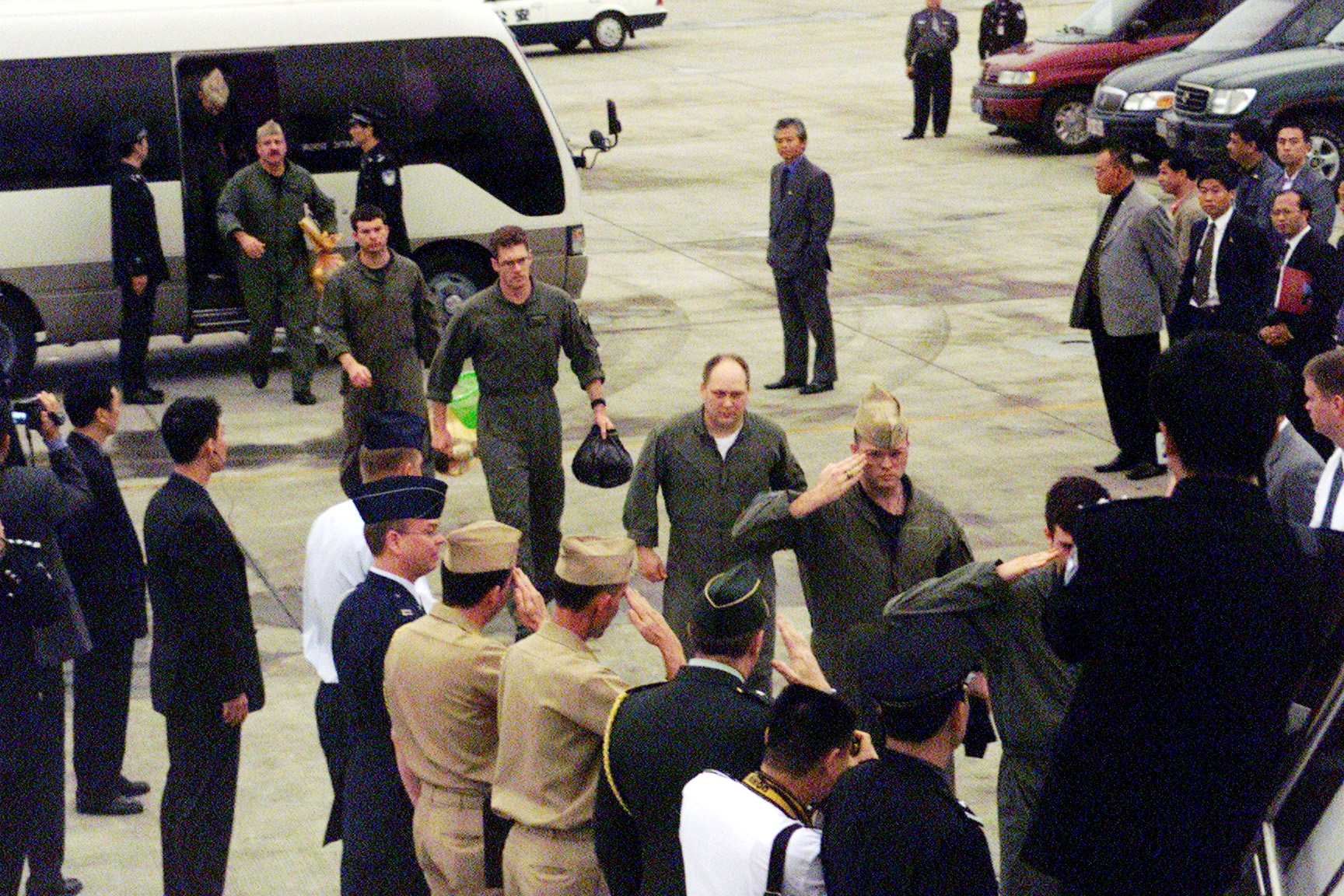 detained EP-3 crew board a chartered aircraft to Guam after the Hainan Island incident.